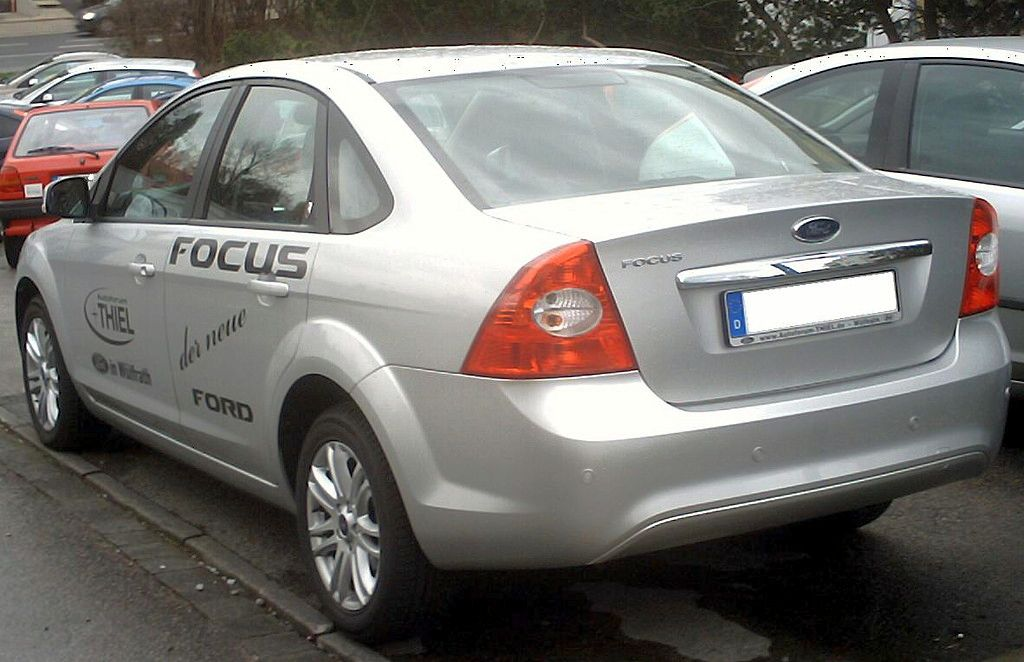 Ford Focus Limousine